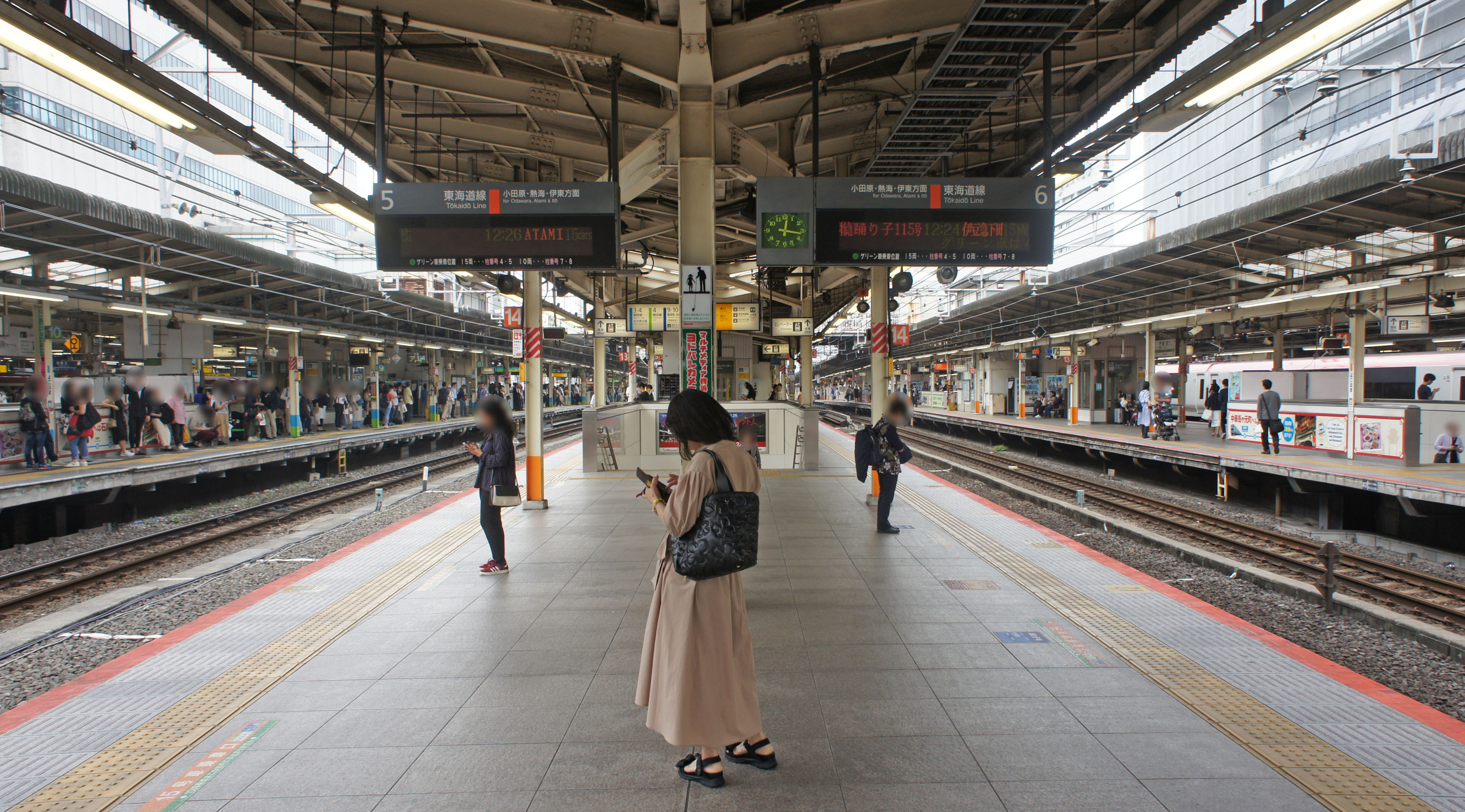 Platform 5・6 (Tokaido Line) of JR Yokohama Station